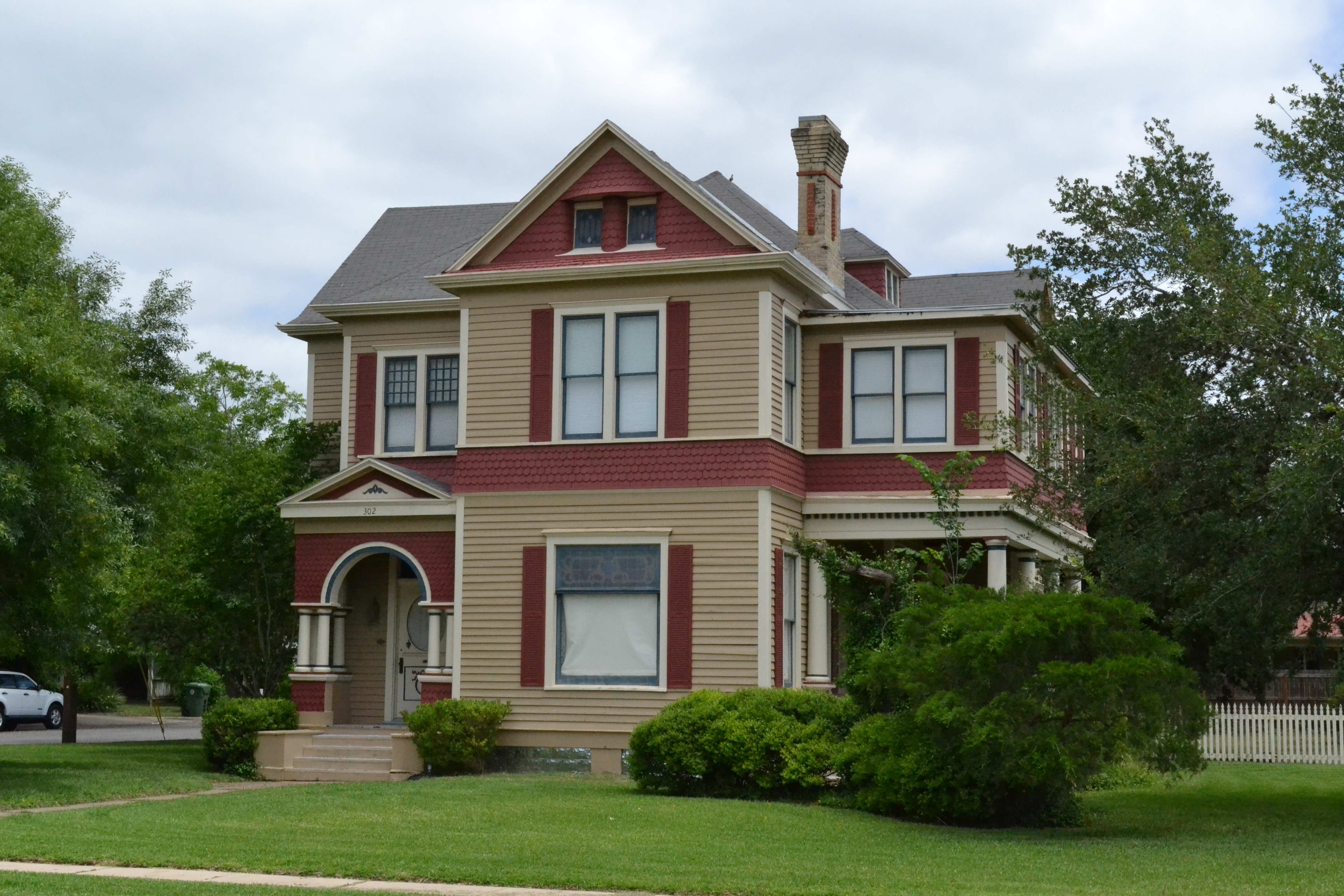 A contributing building in the Terrell-Reuss Historic District.